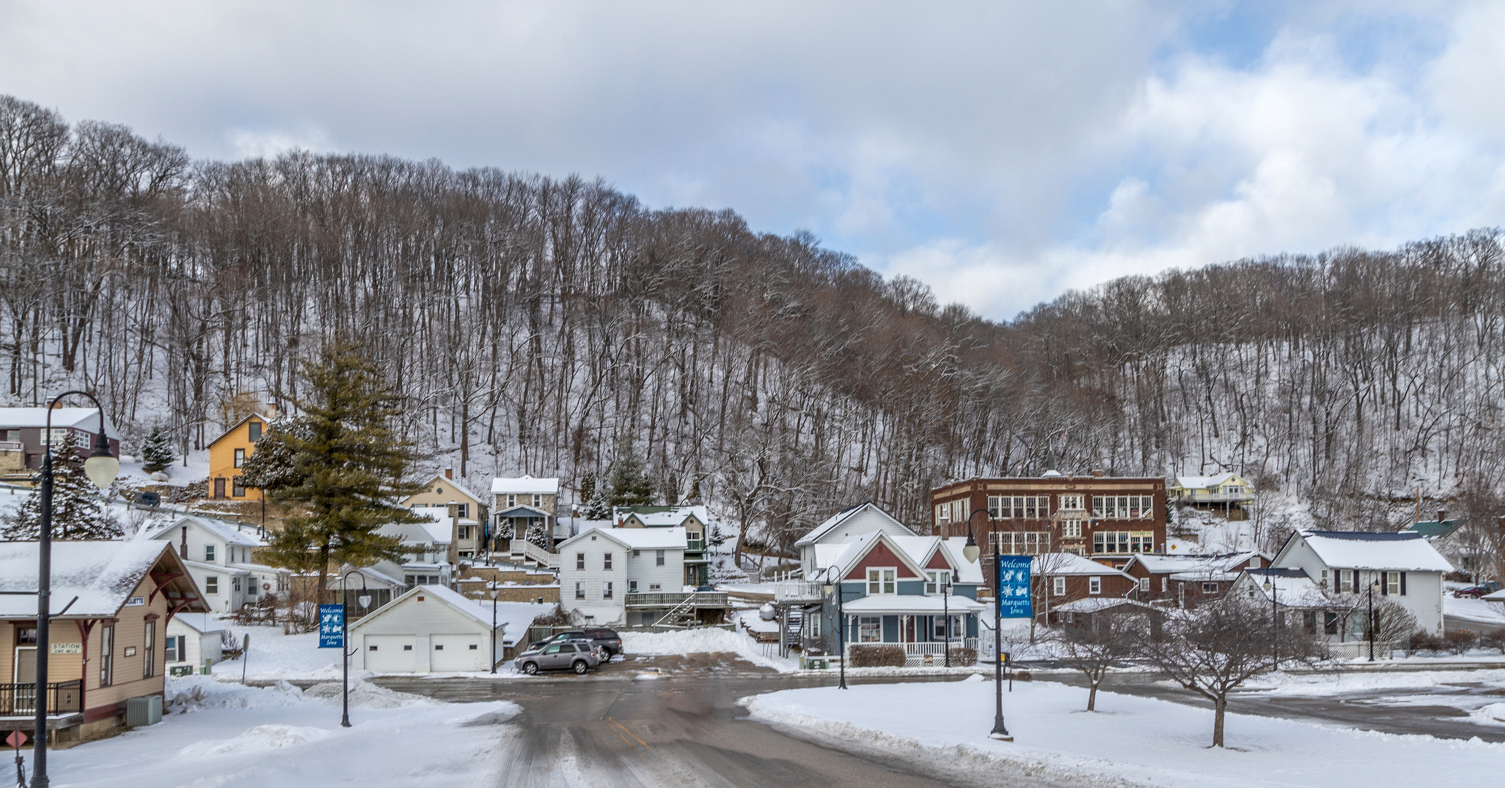 The small river town of Marquette, Iowa and the bluffs along the Mississippi River in winter.